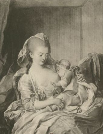 Alleged portrait of Madame Poitrine, nurse of the first Dolphin, half-legged, seated, three-quarters to the right, giving the royal child's left breast: [photomechanical print] - created before 1900 (out of French copyright)